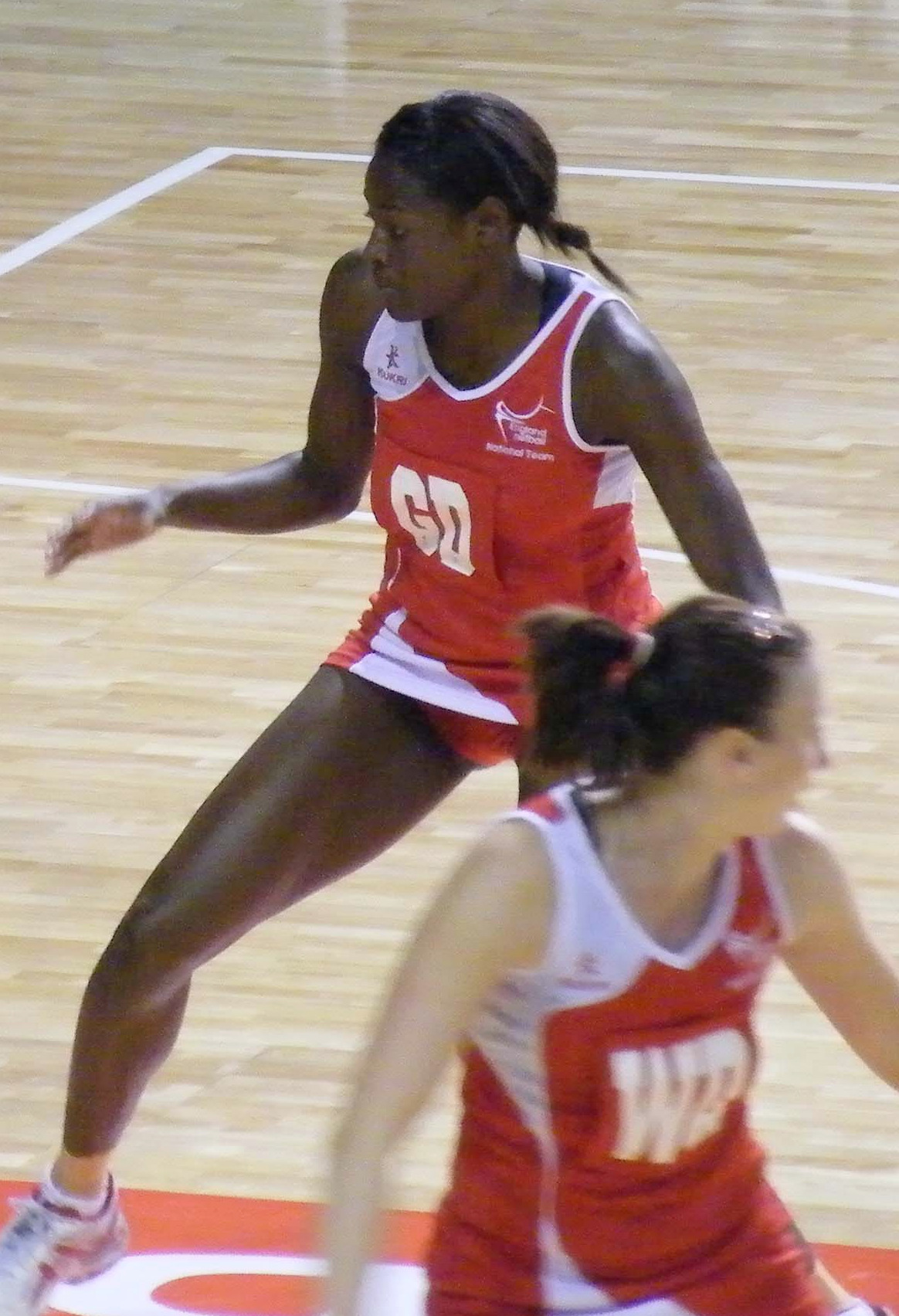 Australia v England Netball test - Adelaide october 2008